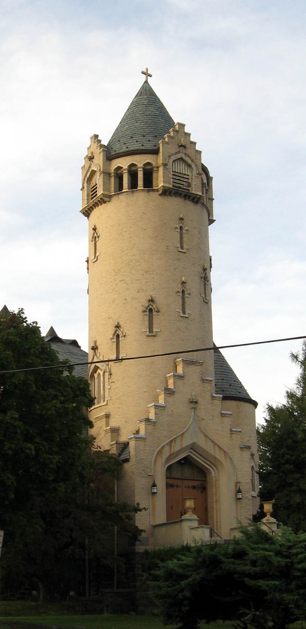 Looking northeast at Summerfield United Methodist Church in Port Chester, New York shortly before sunset of a mostly sunny day.